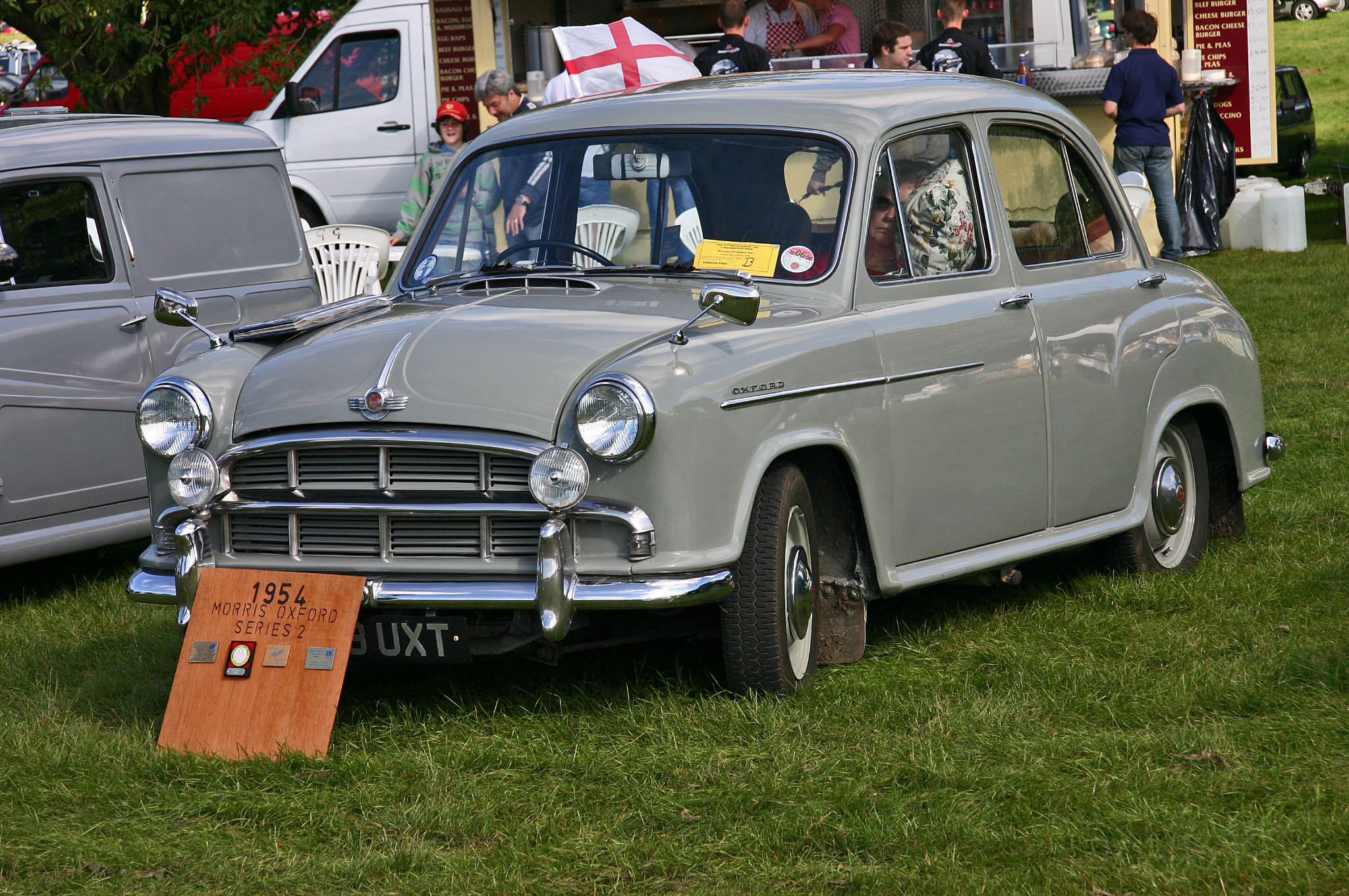 Morris Oxford Series II. The previous 'poached egg' design Morris Oxford was replaced by this all new bodyshell for the Series II in 1954. Also new was the Austin-designed B-series 1489cc engine